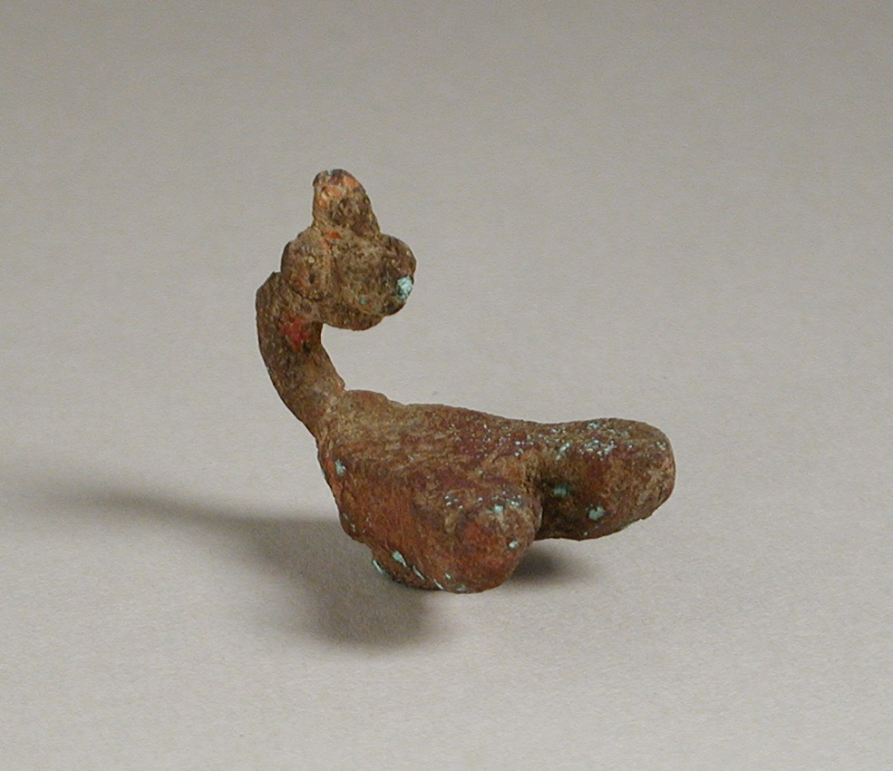 Egypt, Ptolemaic Period - Roman Period (332 BCE - 300 CE) Sculpture; models Bronze Height: 1 in. (2.4 cm); Length: 1 in. (2.6 cm) Gift of Carl W. Thomas (M.80.203.233) Egyptian Art